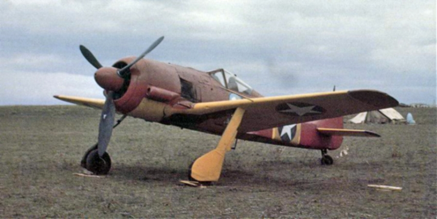 A Captured German Focke-Wulf Fw 190A-5 sits awaiting test drives. This aircraft was one captured in Tunisia.